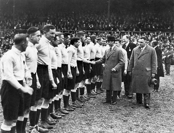 George VI, Duke of York, meets the Waratahs before playing England at Twickenham.